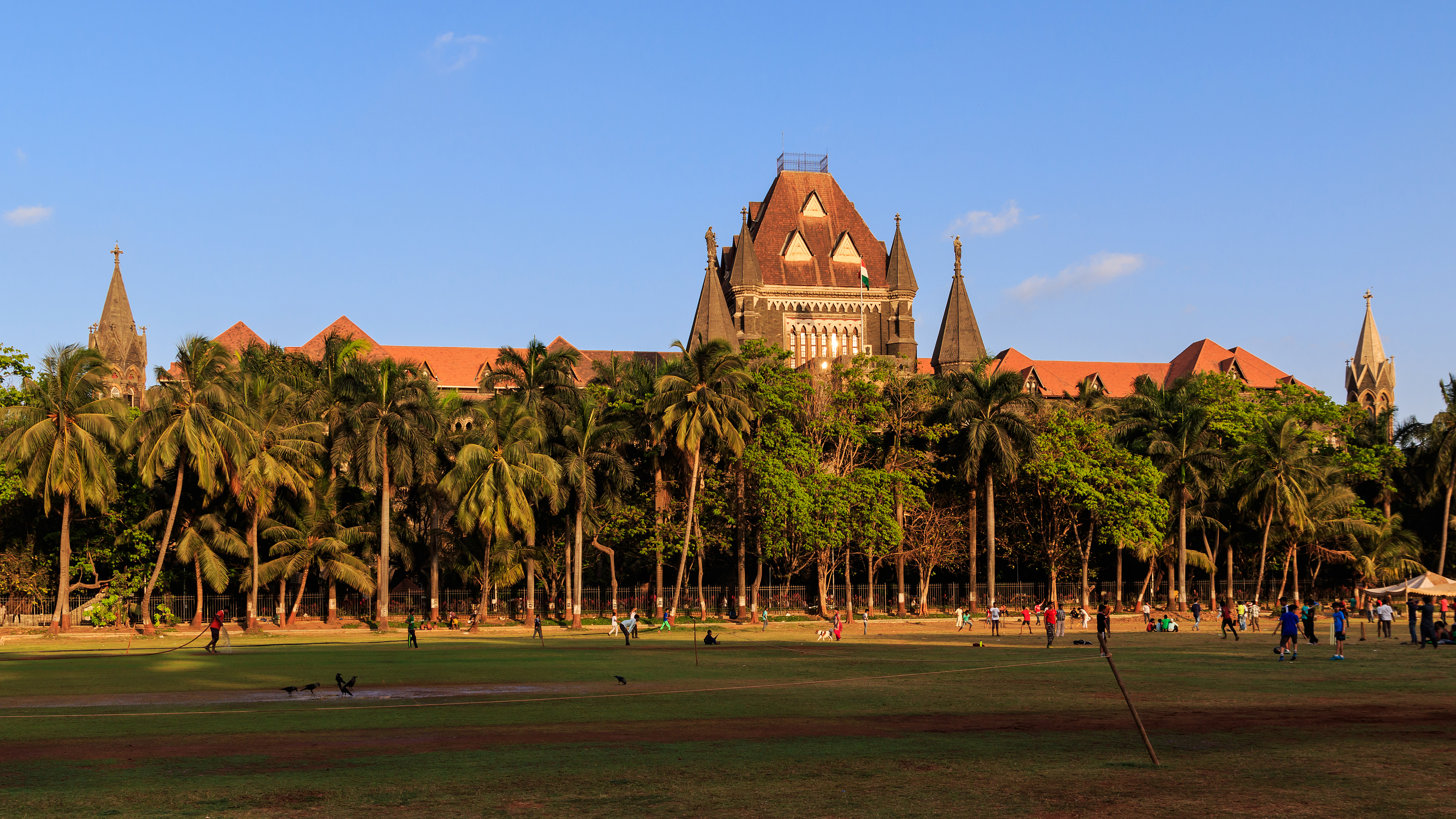 Bombay High Court building in Mumbai, India